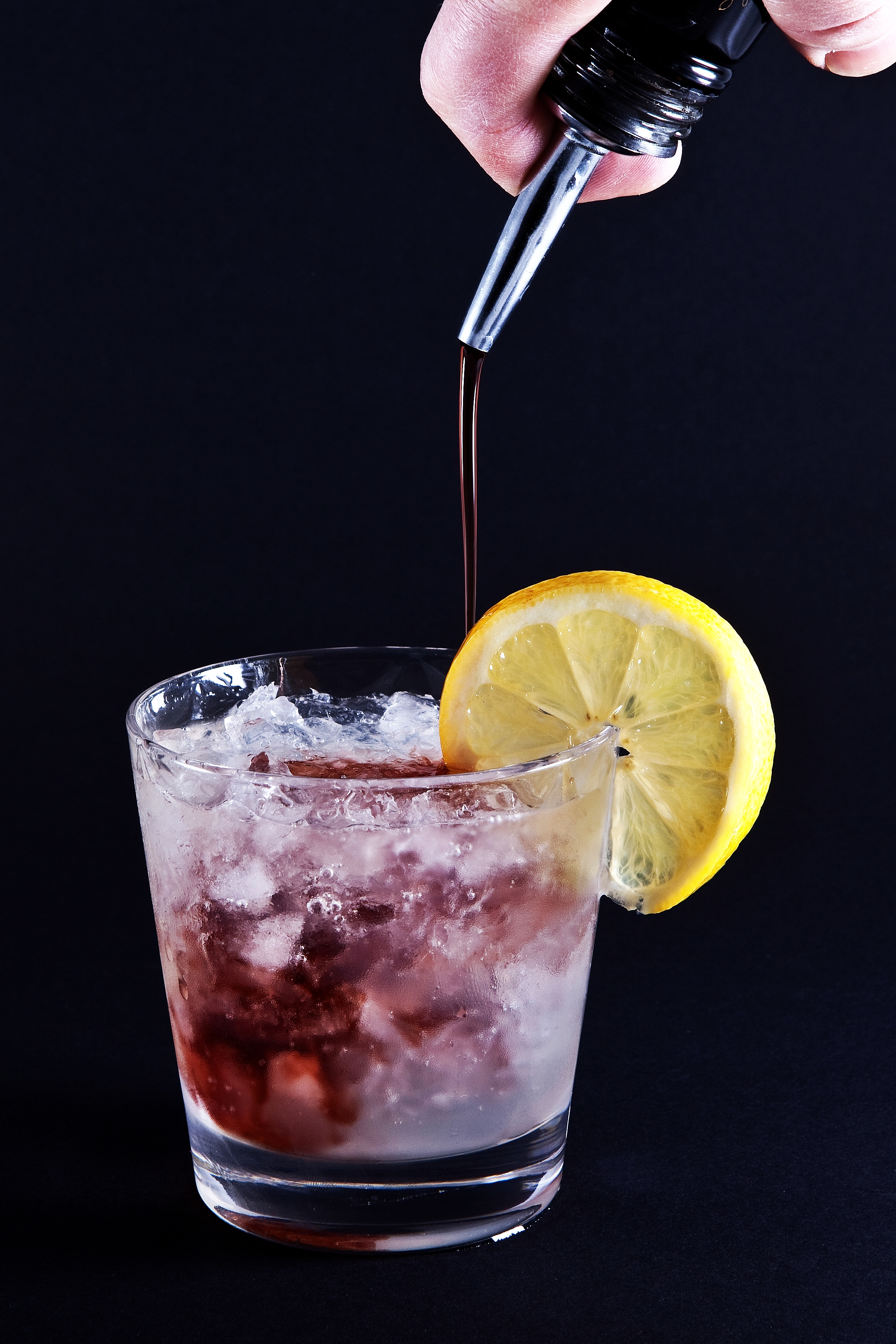 A Bramble Cocktail made with Gin, lemon juice, sugar syrpp and Crème de Mûre (blackberry liqueur), which is being poured on this picture to float the drink.